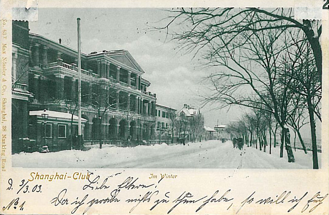 Historic view of the Bund in Shanghai.